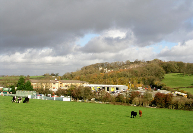 The Alps, Wenvoe In the foreground stands the Vale of Glamorgan Council's highways department and behind is The Alps Quarry with tarmac and concrete batching plants.